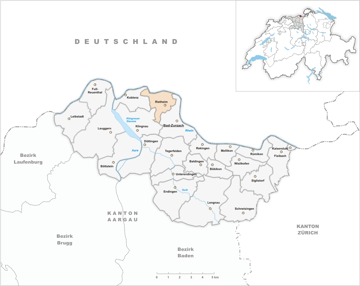 Municipality Rietheim